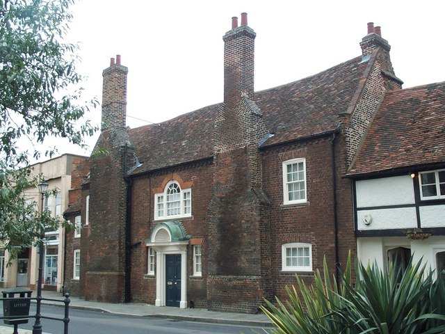 The Old Palace Actually the hunting lodge of James I. On his journey south from Scotland to London, after the death of Queen Elizabeth I, he stopped here to hunt for three days, and returned to Royston as often as the cares of state permitted.